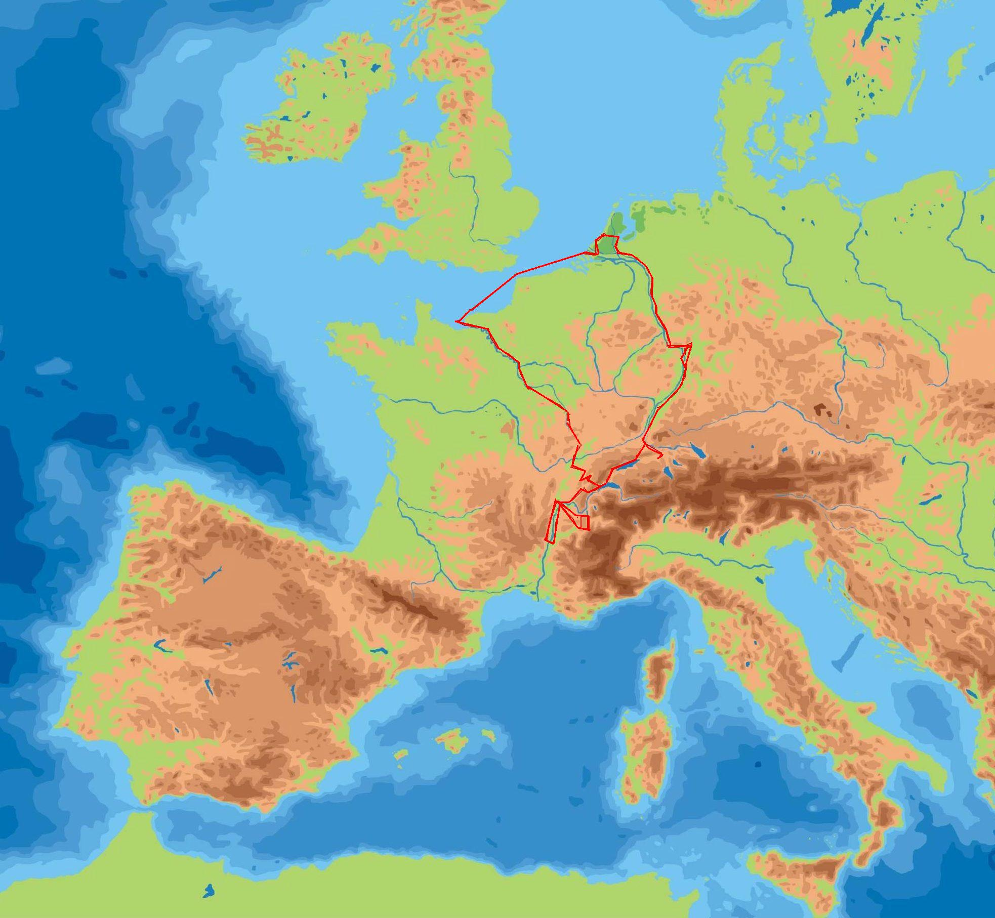 Geographical map of grand tour taken by Vincent Laurensz van der Vinne in 1652-1655, from Haarlem down the Rhine to Italy (he never crossed the alps), and then homewards over the Seine to Paris, and by boat from le Havre.